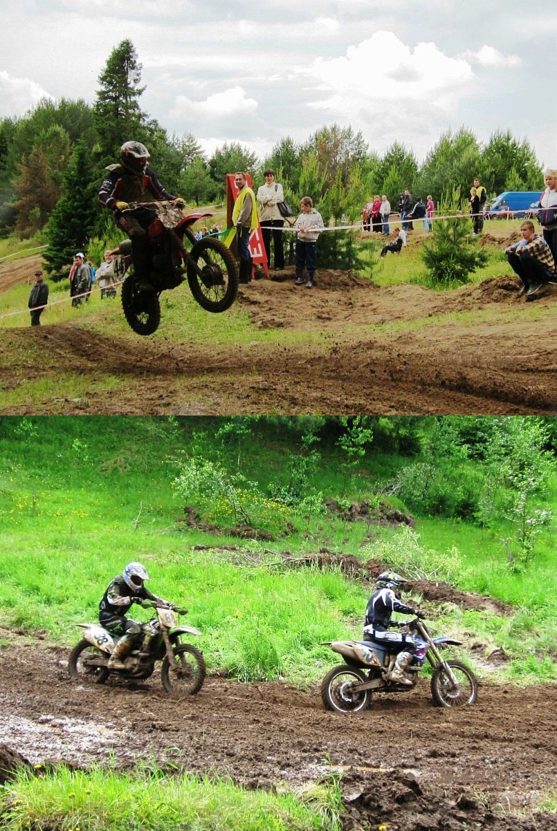 Perm Region